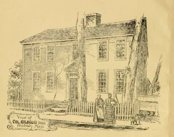 ColThomasGilbert, Freetown, Massachusetts